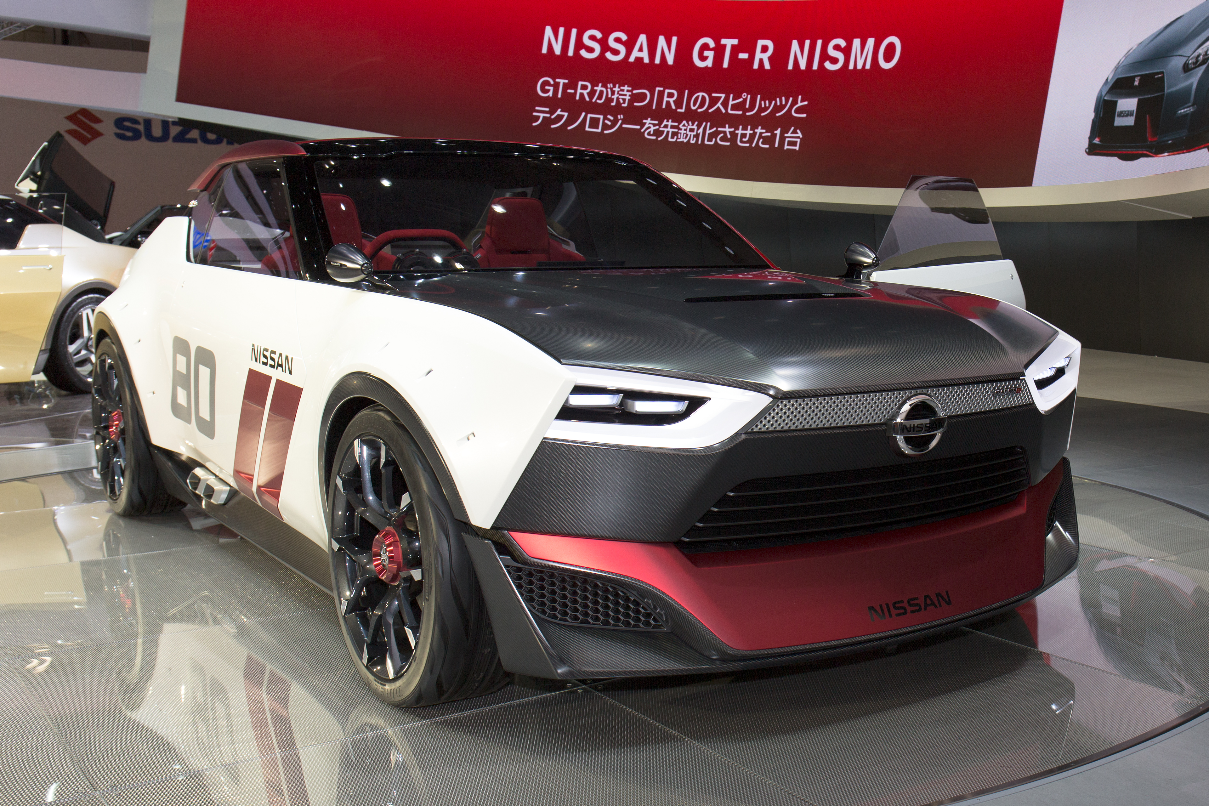 Tokyo Motor Show 2013: Nissan IDx Nismo